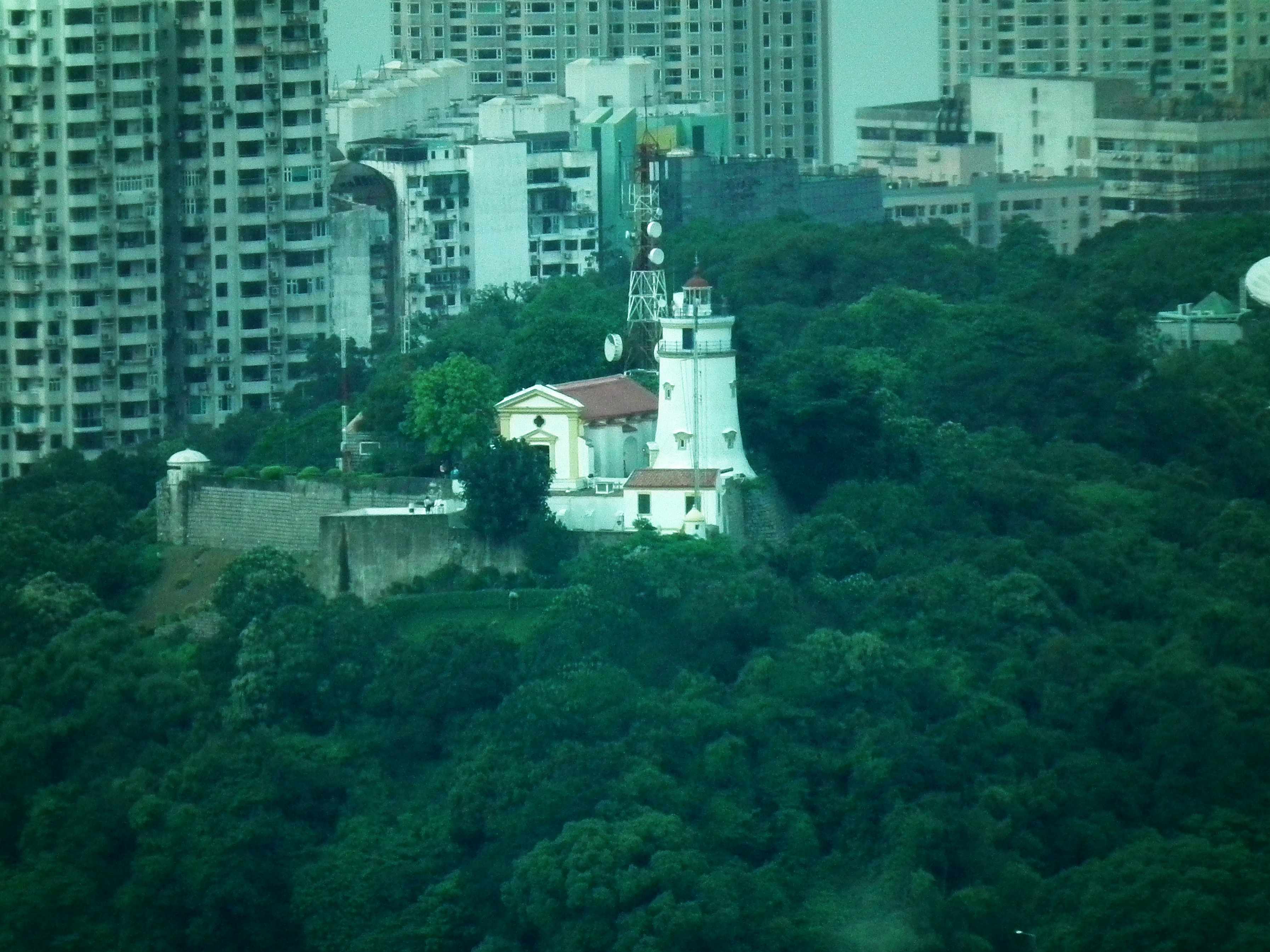 Guia Fort and Lighthouse 東望洋砲台及燈塔